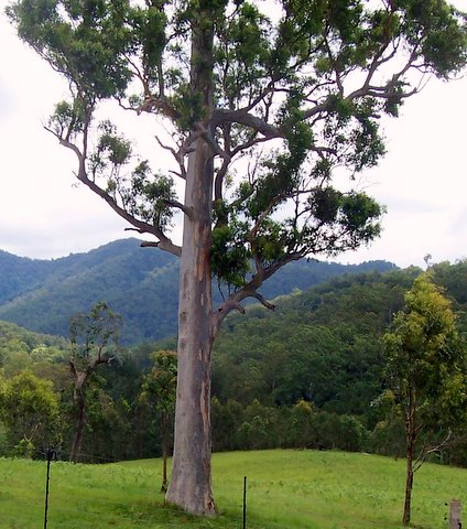 Eucalyptus propinqua at Ellenborough River Valley, NSW, Australia